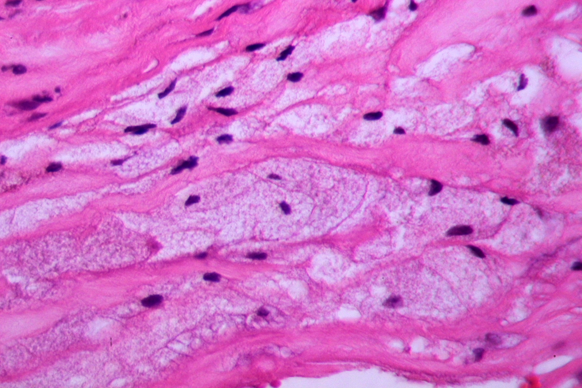 Atherosclerosis.